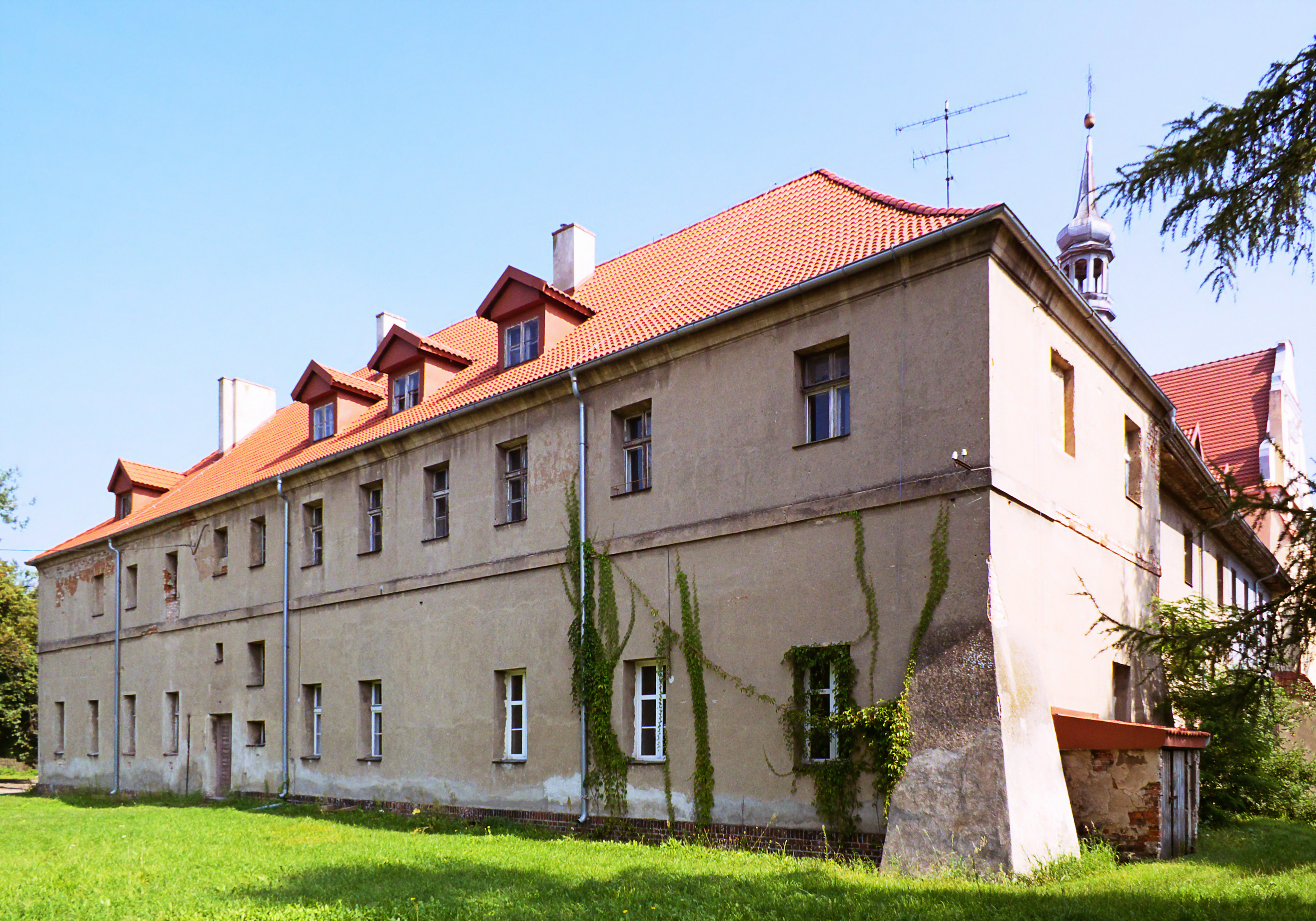 Szamotuły, former reformati monastery